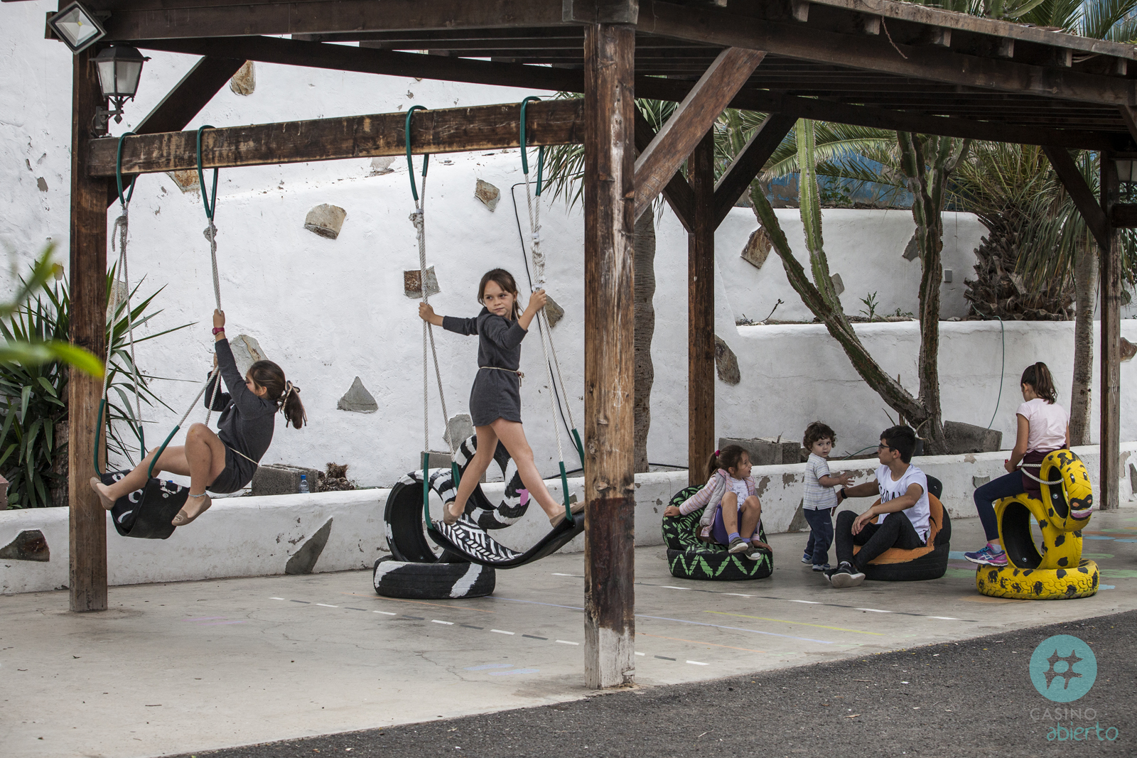 Jornada #viveCASINO, durante el proceso de socialización CASINOabierto.